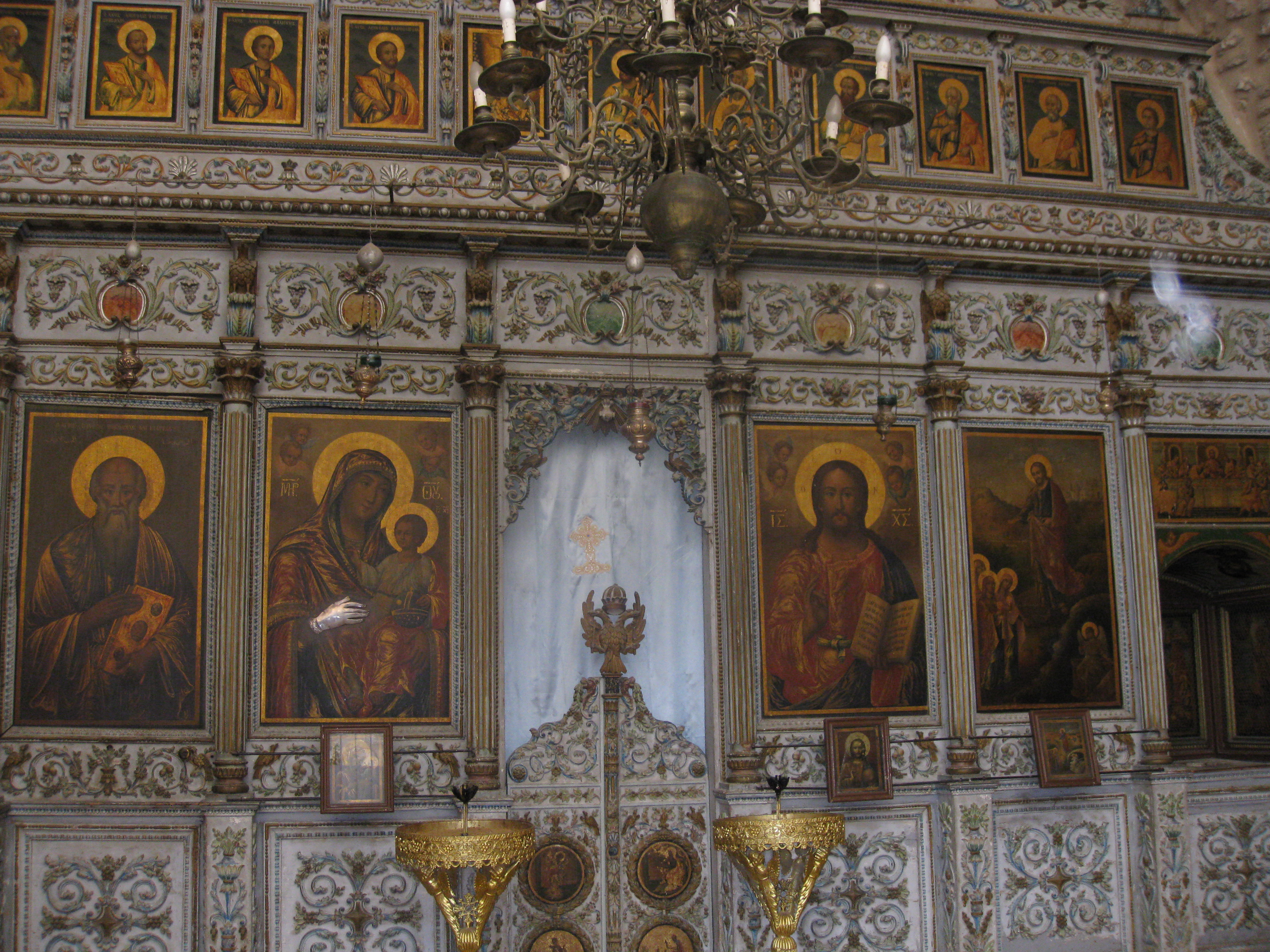 Chapel of John the Baptist in the Church of the Holy Sepulchre